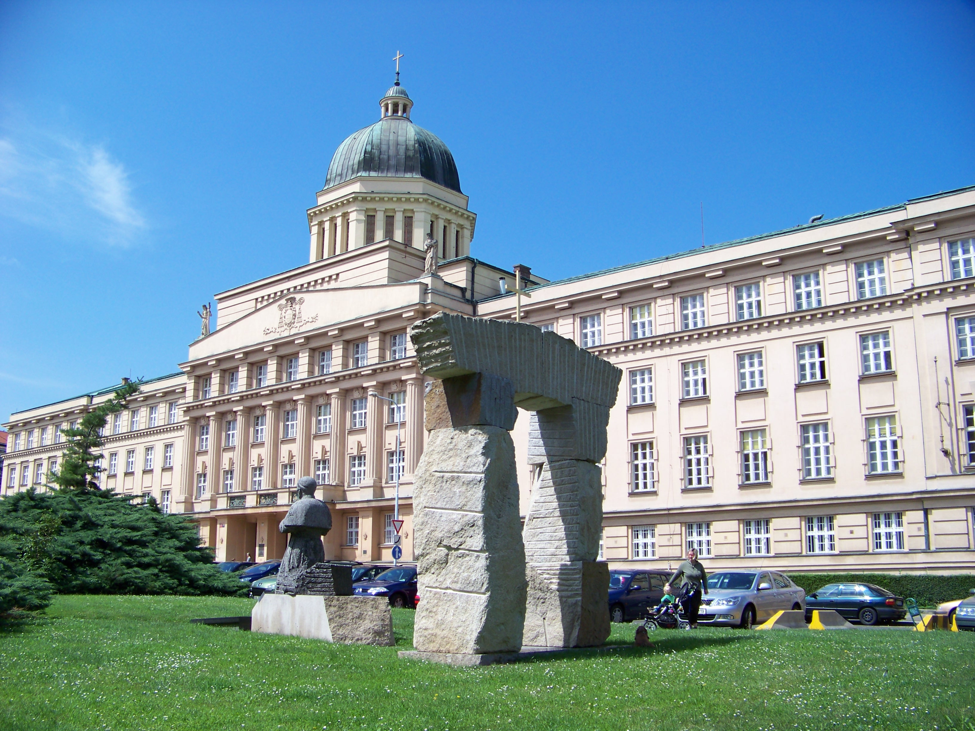 Prague-Dejvice, the Czech Republic. Theological Faculty and Archbishop Seminary and a monument to Joseph cardinal Beran.